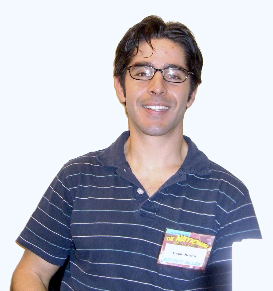 Artist Paolo Rivera at the November 2008 Big Apple Convention in Manhattan.